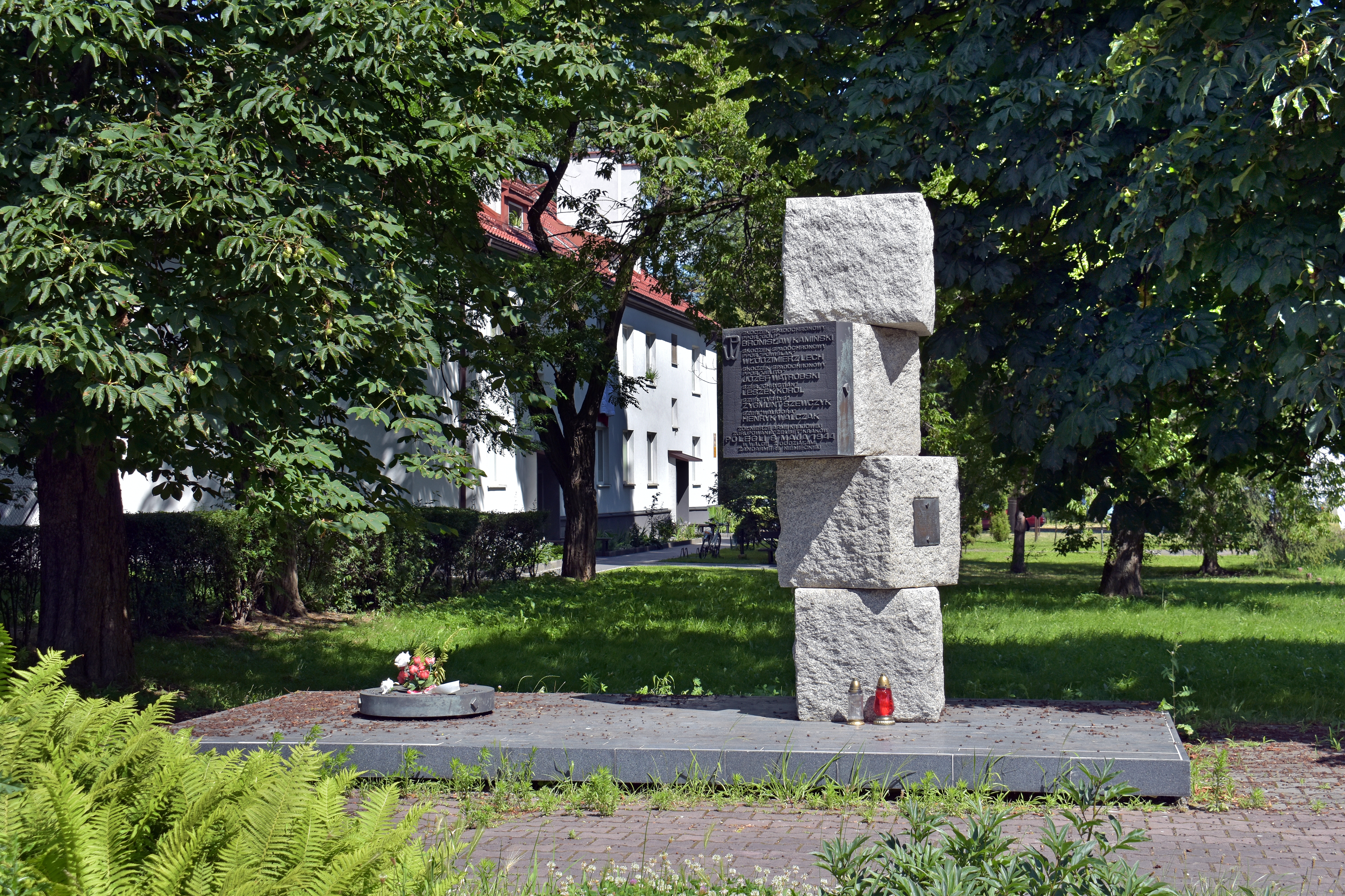 The Fallen (May 8, 1944) of AK-Polish resistance movement Soldiers' Memorial, 1979 design. by Jerzy Stachurski, Centralna street, Kraków, Poland